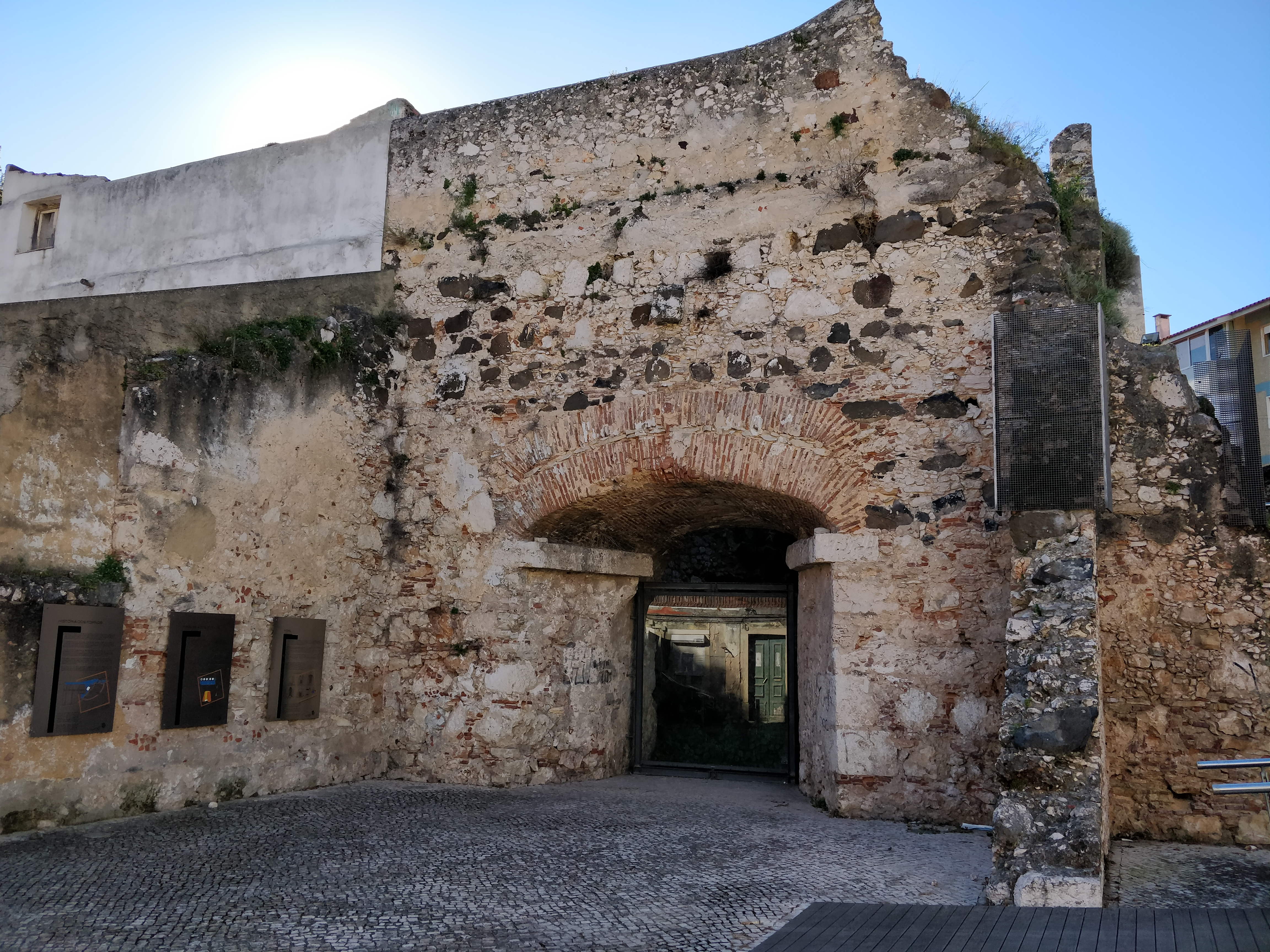 Front of Oeiras lime kiln, near Lisbon, Portugal